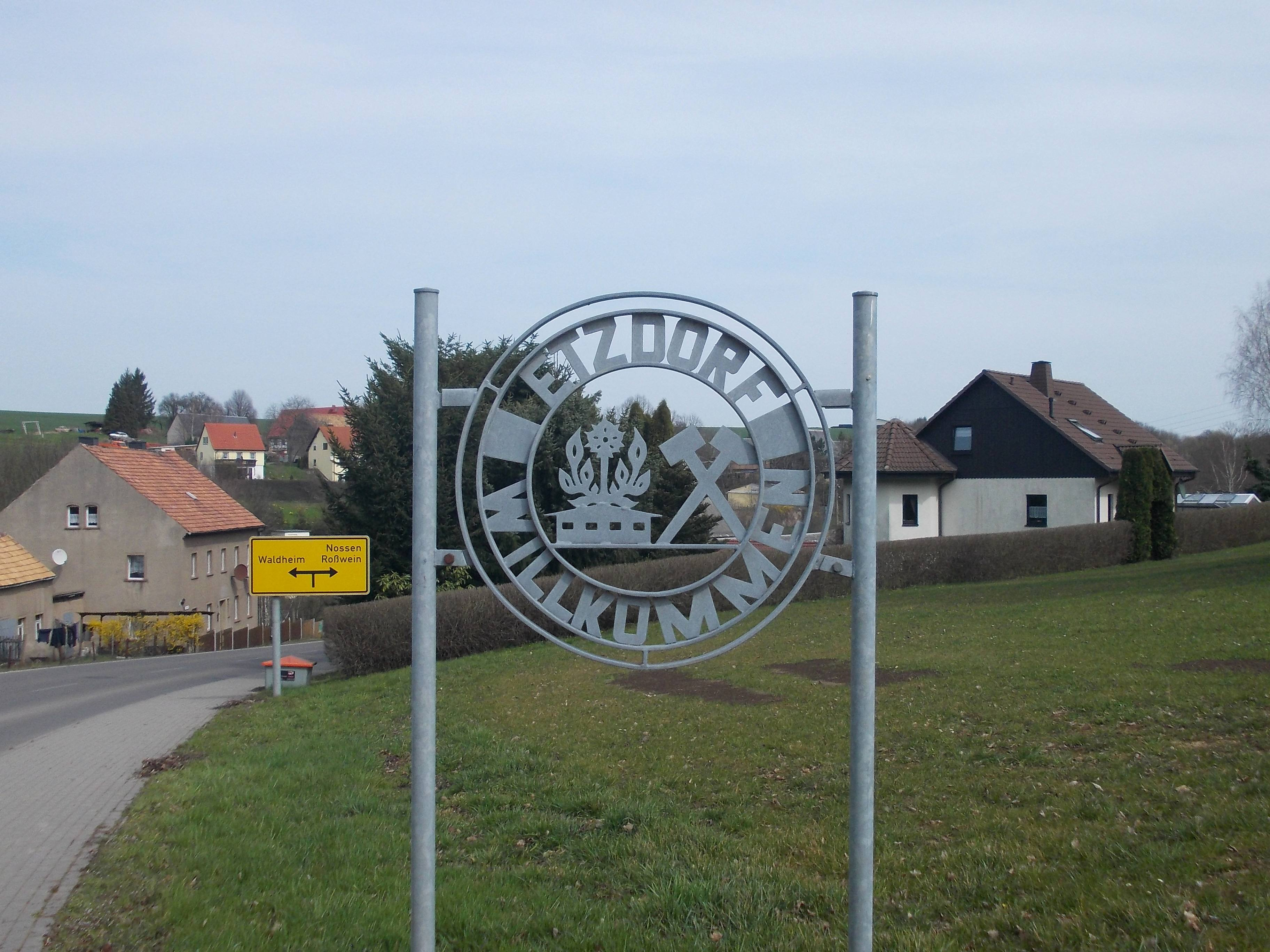 Entrance to the village of Etzdorf (Striegistal, Mittelsachsen district, Saxony)